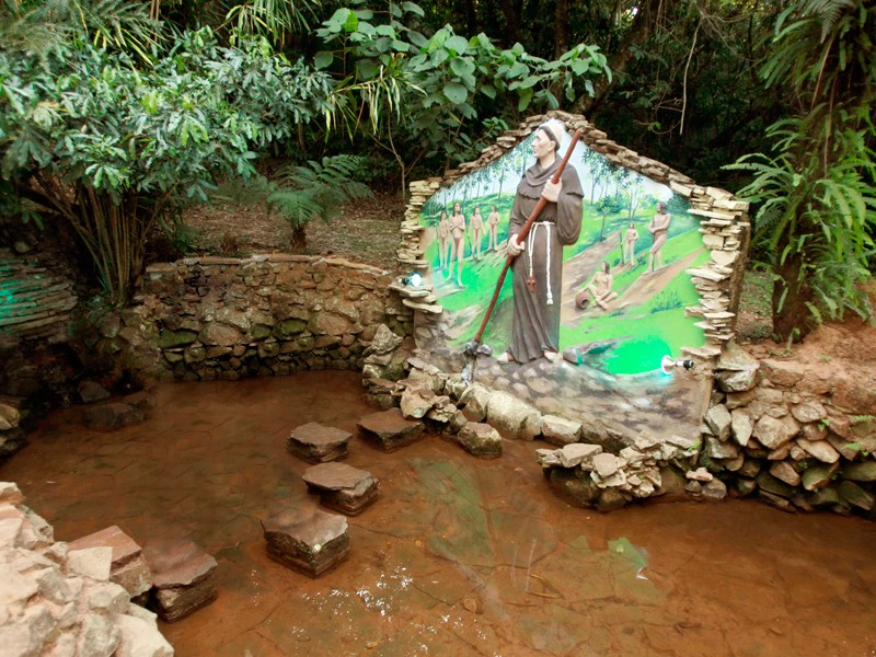 The famous Ykuá Bolaños